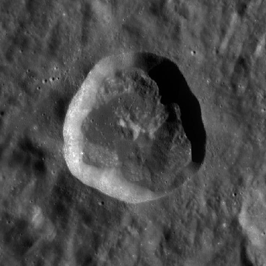 Steklov crater, on the far side of the moon. Mosaic of LRO WAC images. Aspect ratio adjusted from Mercator Projection.